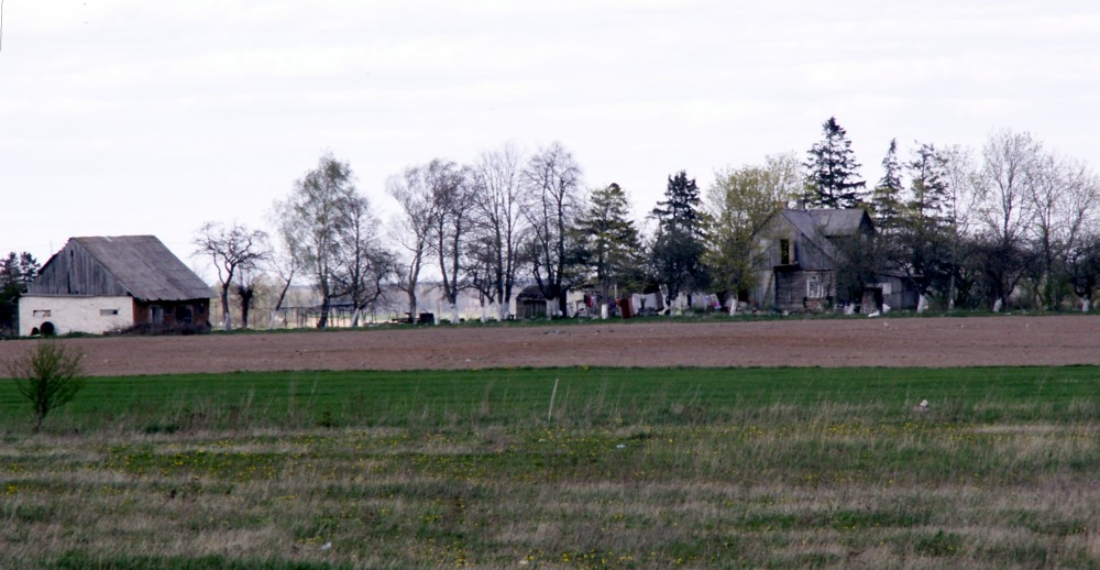 Daušiškiai, Šiauliai district, Lithuania